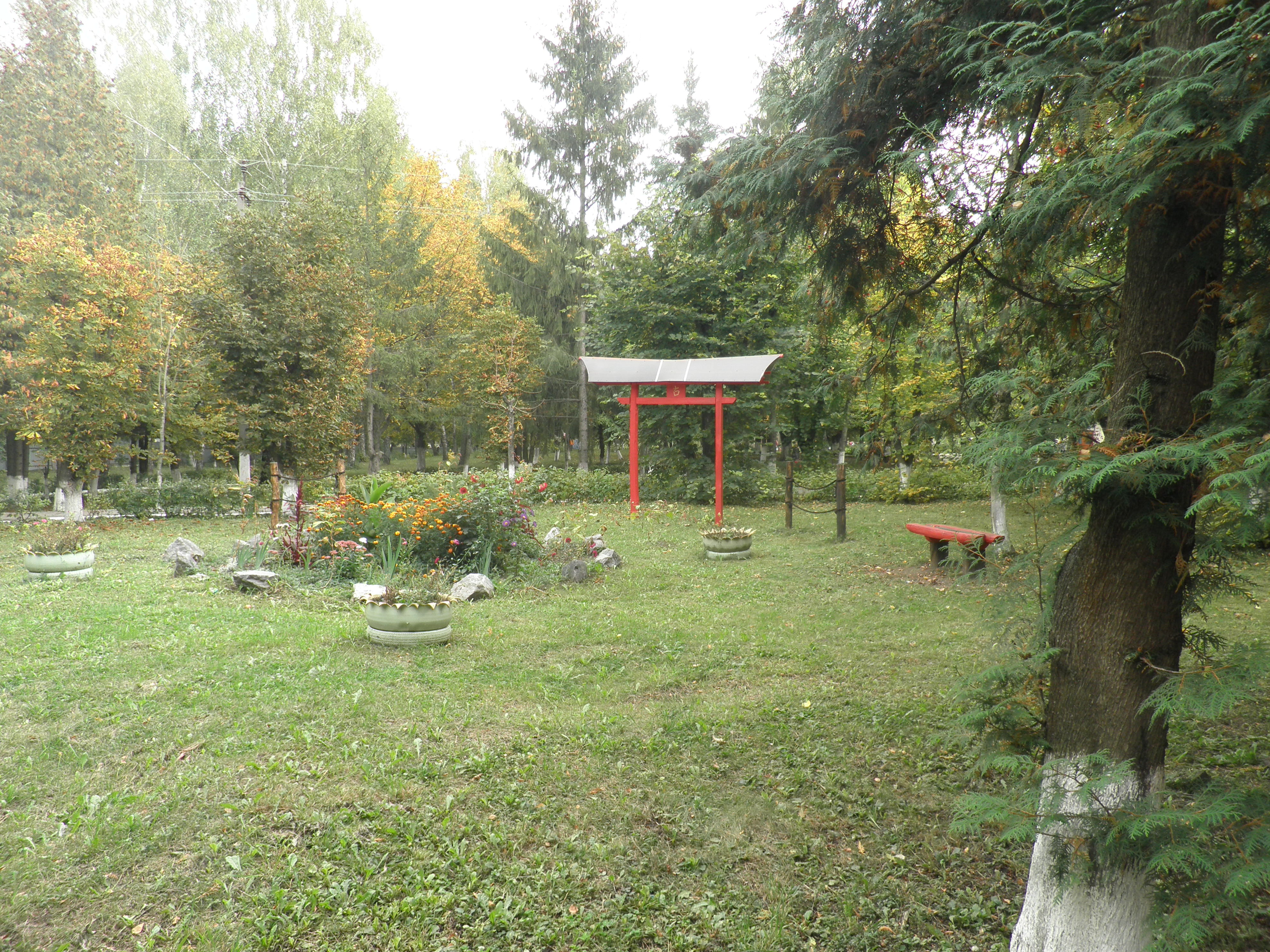 Khmelnitskiy regional psychiatric hospital №1: promenade yard of department of neuroses №12